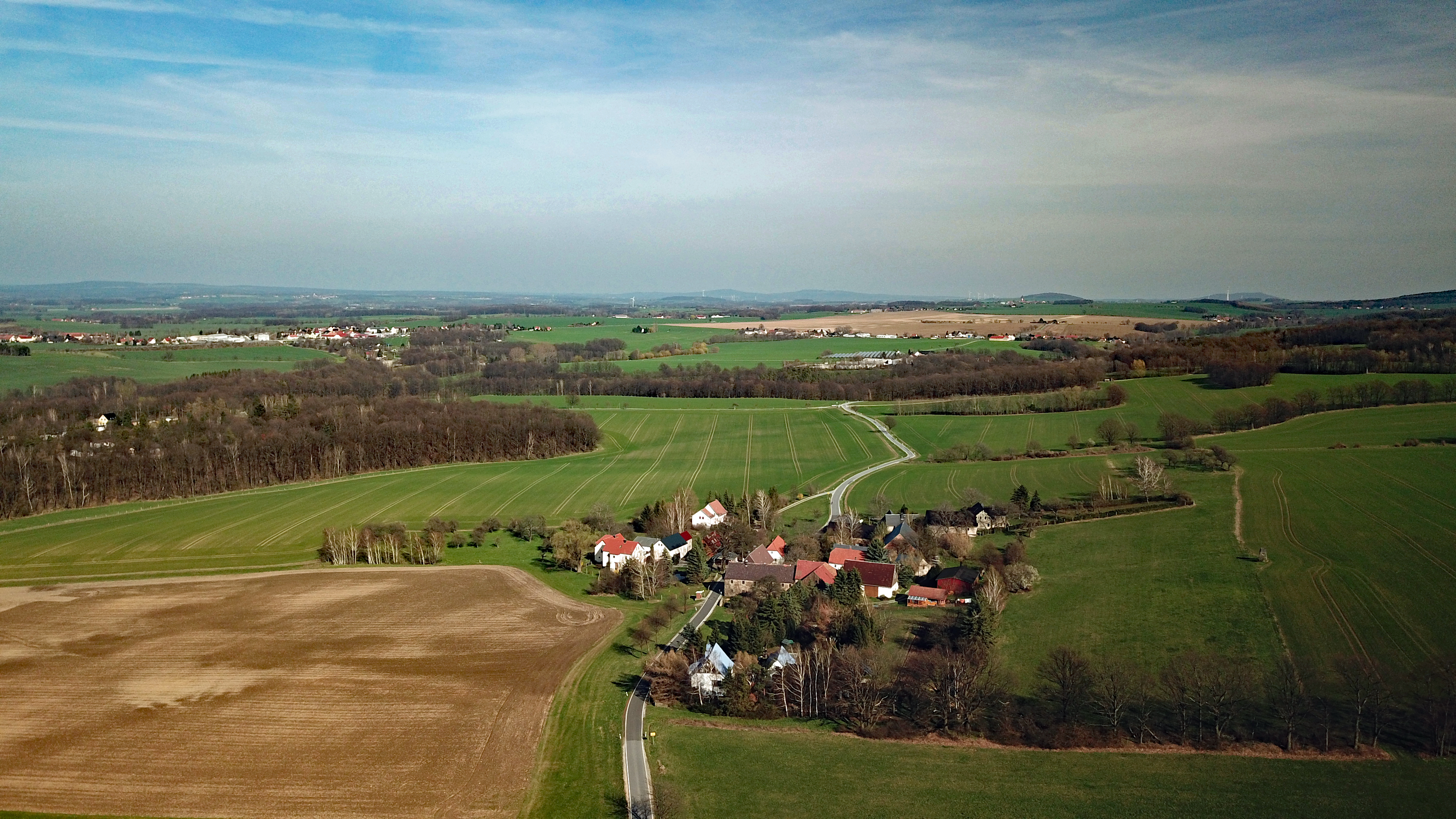 Rieschen (Kubschütz, Saxony, Germany) Hornjoserbsce: Powětrowy wobraz Zrěšina Dieses Foto wurde mit einem Quadcopter innerhalb der RMZ des Flugplatzes EDAB aufgenommen. Der Flugleiter wurde am Aufnahmetag telephonisch über Ort und Zeit informiert und hat zugestimmt. Der Flug erfolgte auf Grundlage der Allgemeinverfügung der Landesdirektion Sachsen zur Erteilung der Betriebserlaubnis für unbemannte Luftfahrtsysteme und Flugmodelle gemäß § 21a LuftVO und Zulassung von Ausnahmen von Betriebsverboten gemäß § 21b LuftVO für den Freistaat Sachsen.